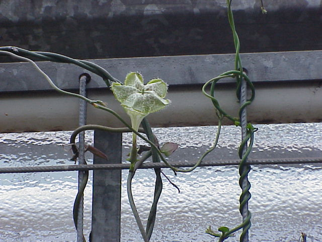 Species: Ceropegia sandersonii Family: Asclepiadaceae Image No. 2